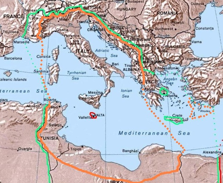 Map of the 1940 project "Imperial Italia", inside the orange line and dots, in Europe and North Africa. Self-made (I have based my work on the original Commons Image:Mediterranean Relief.jpg, licensed PD-USGov). The green line and dots show the biggest extension of Italian control in the Mediterranean sea in november 1942 (while the red shows the British controlled areas, like Malta).